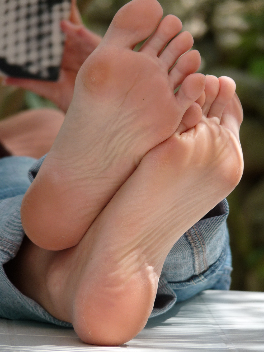 crossed feet, so sexy